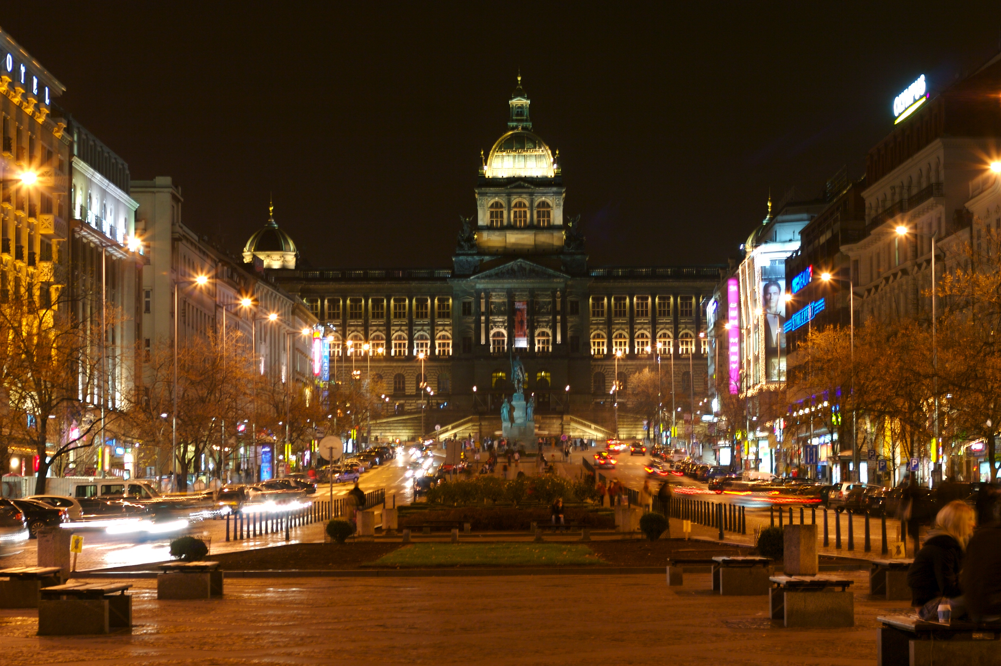 Saint Wenceslas Square, Prague, CZ